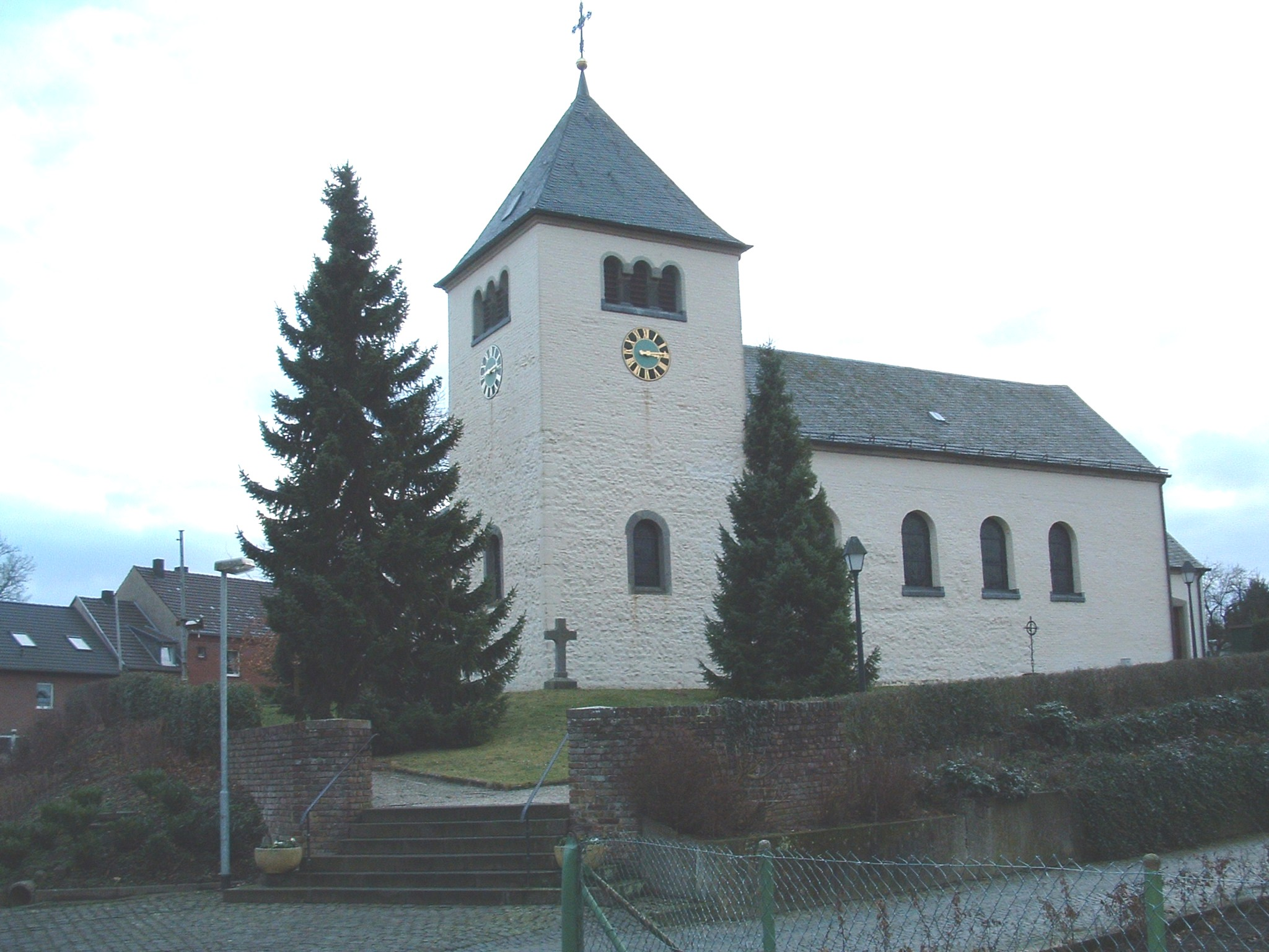 Church St. Johann Baptist Niedermerz (Gemeinde Aldenhoven, Kreis Düren)